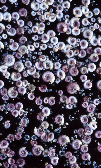 Spirorbis spirorbis, on kelp, Mull, Scotland